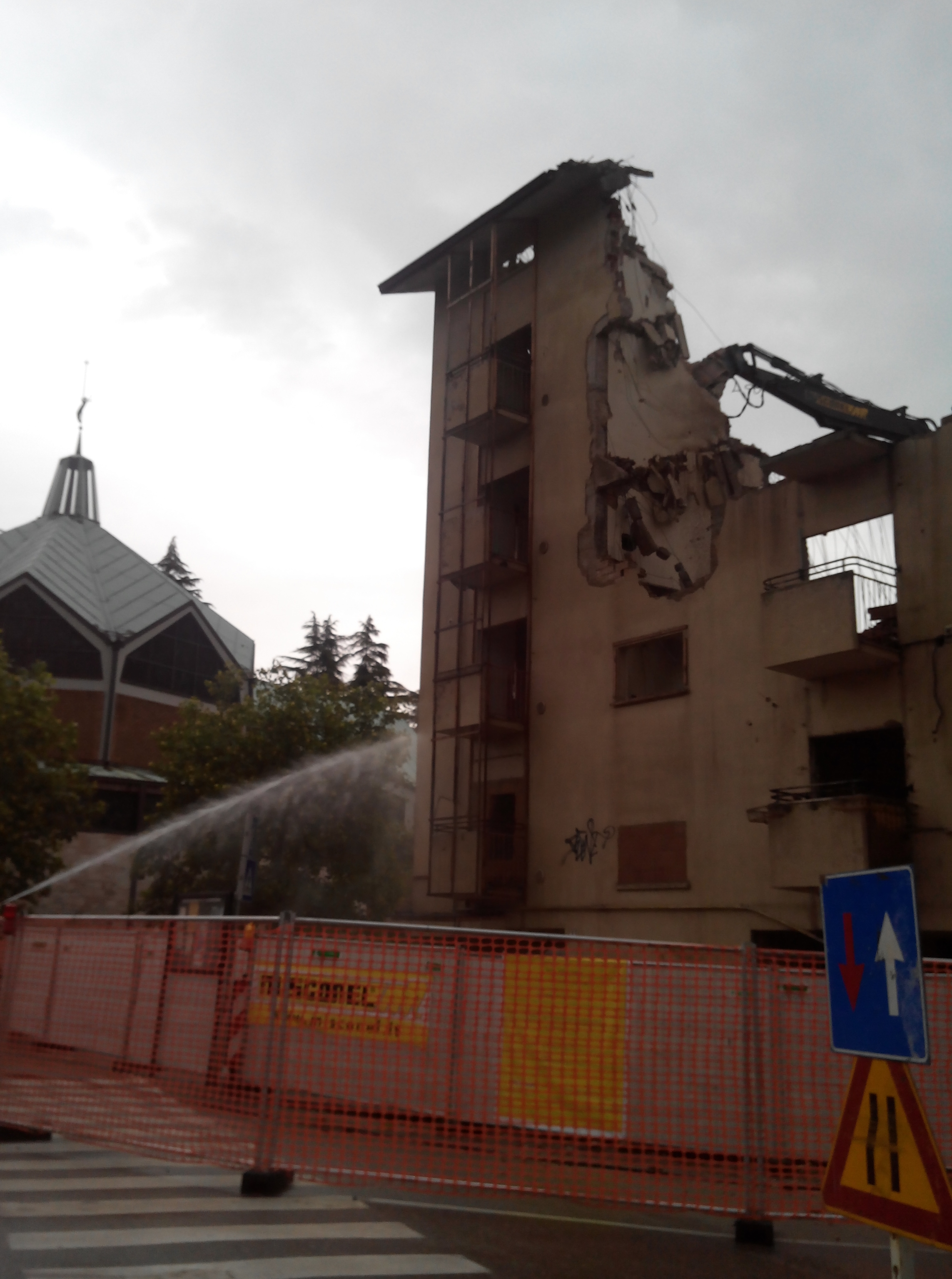 Demolition of a house in the wart San Bartolomeo Trento